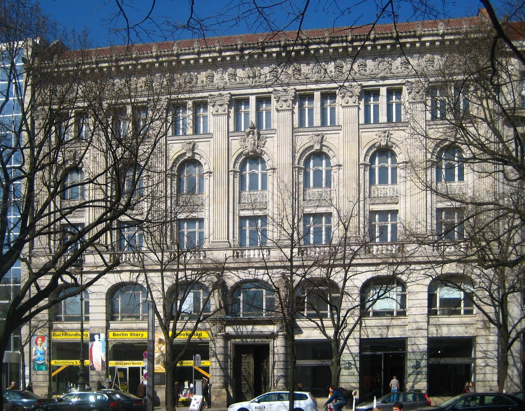 Former administration building of the International Schlafwagengesellschaft Wagon-Lit (International Wagon-Lit Company) at Unter den Linden No. 40 in Berlin-Mitte. It was built 1907/1908 to a design by the architect Kurt Berndt. The building has been designated as a historic landmark.